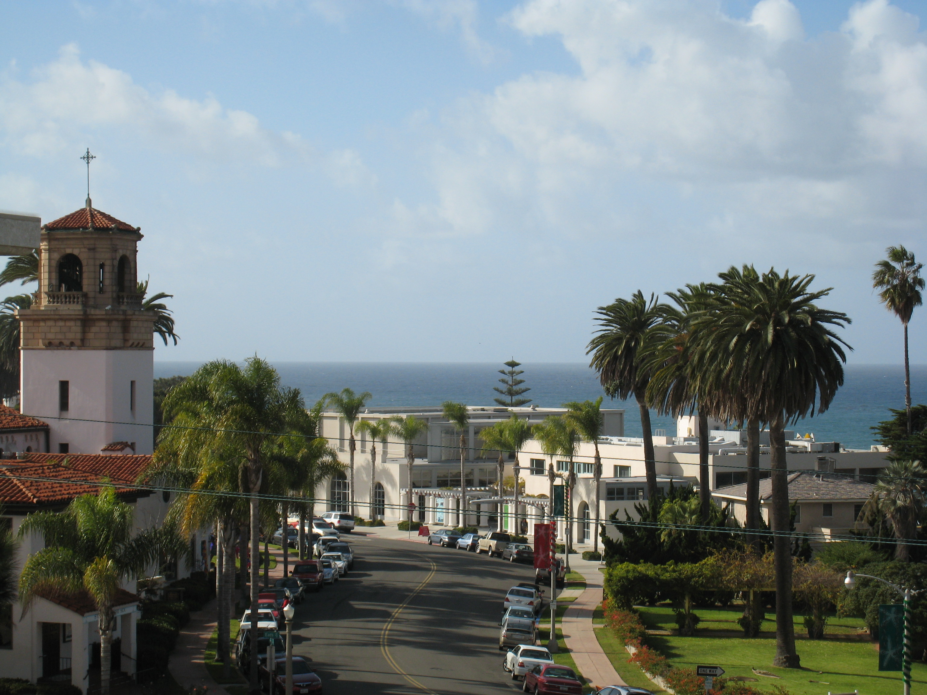 Template:Prospect Street, La Jolla, California